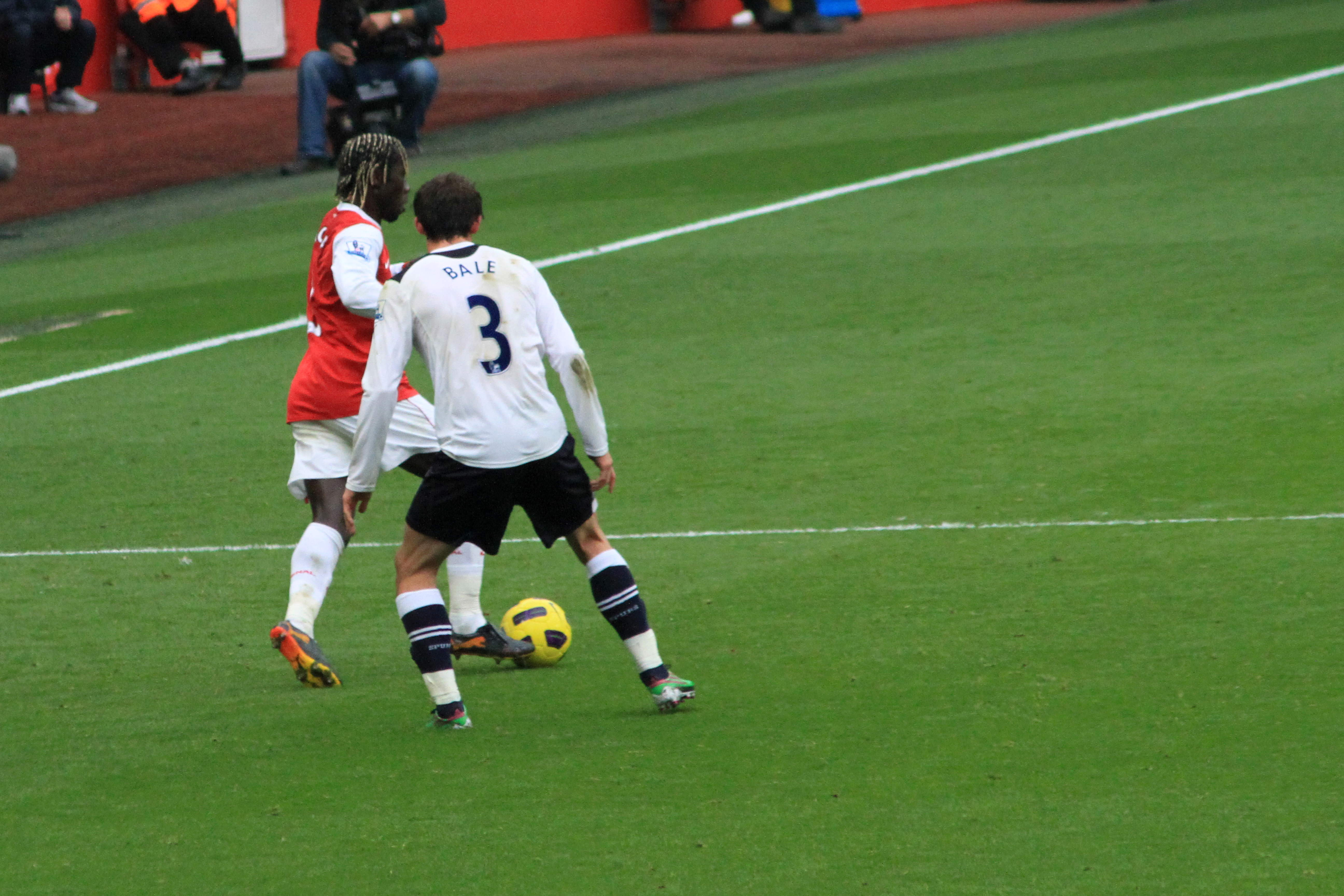 Bacary Sagna & Gareth Bale